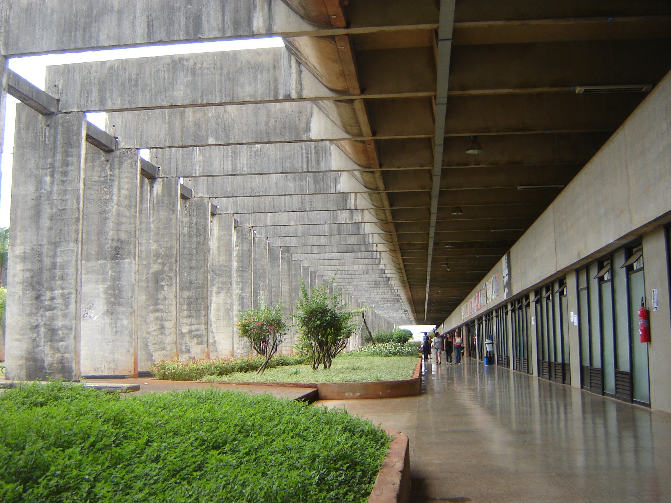 The main corridor that runs through the Central Institute of Sciences building at the Darcy Ribeiro campus of the University of Brasília, Brazil.